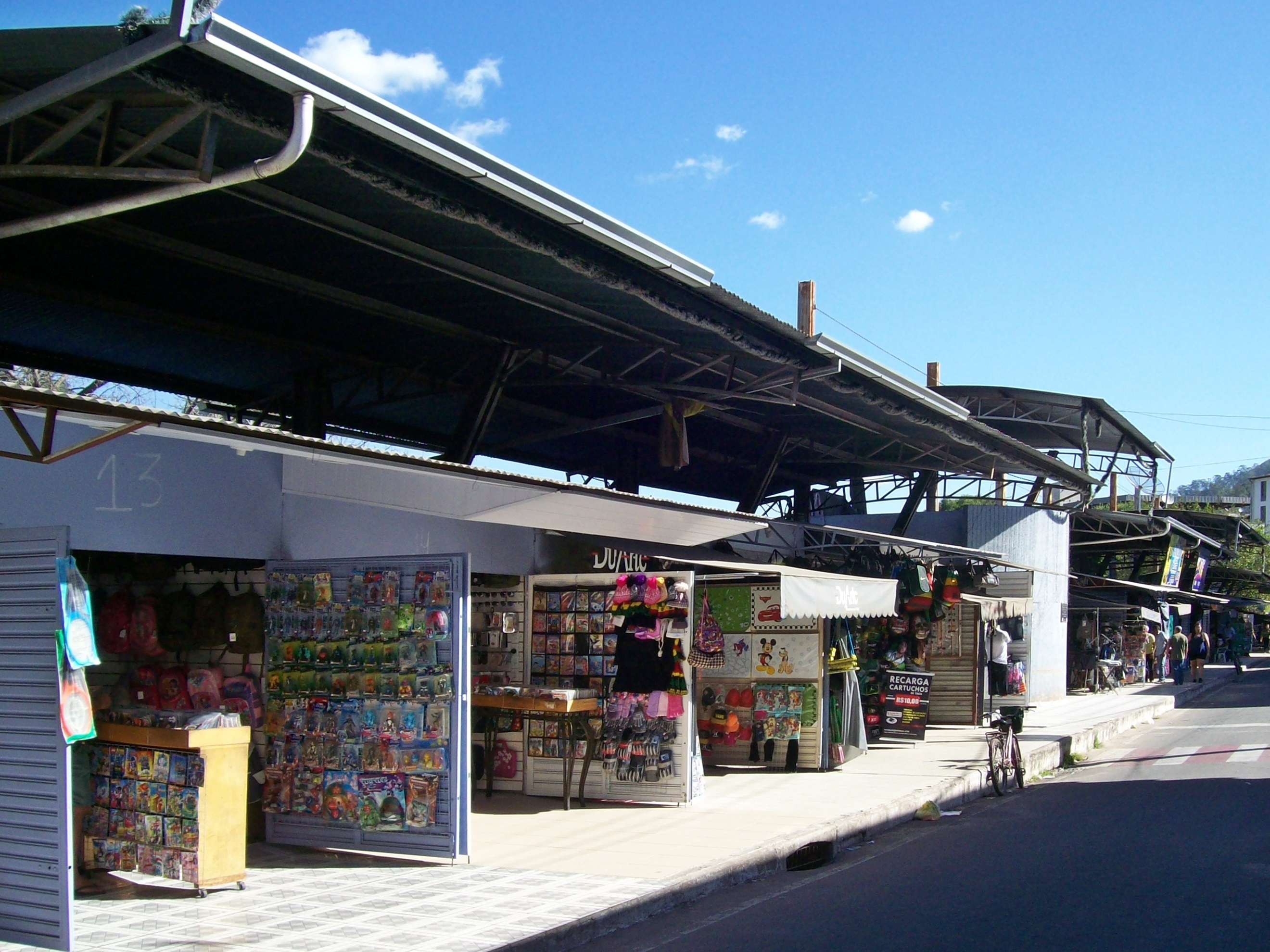 View of the Raimundo de Souza Neto-Sô Mundico informal economy center, in Timóteo, Minas Gerais, Brazil.